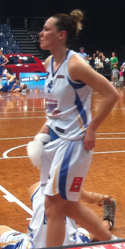 A member of the Bendigo Spirit during the 15 January 2012 win over the Canberra Capitals at the Australian Institute of Sport.